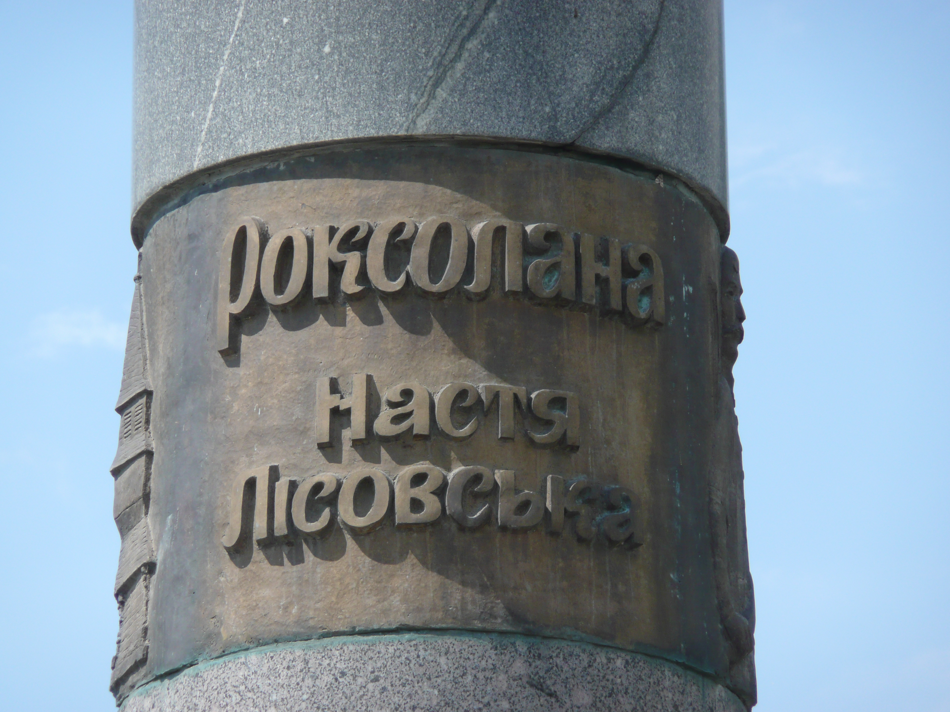 Inscription on the monument to Roxelana in Rohatyn, Ukraine